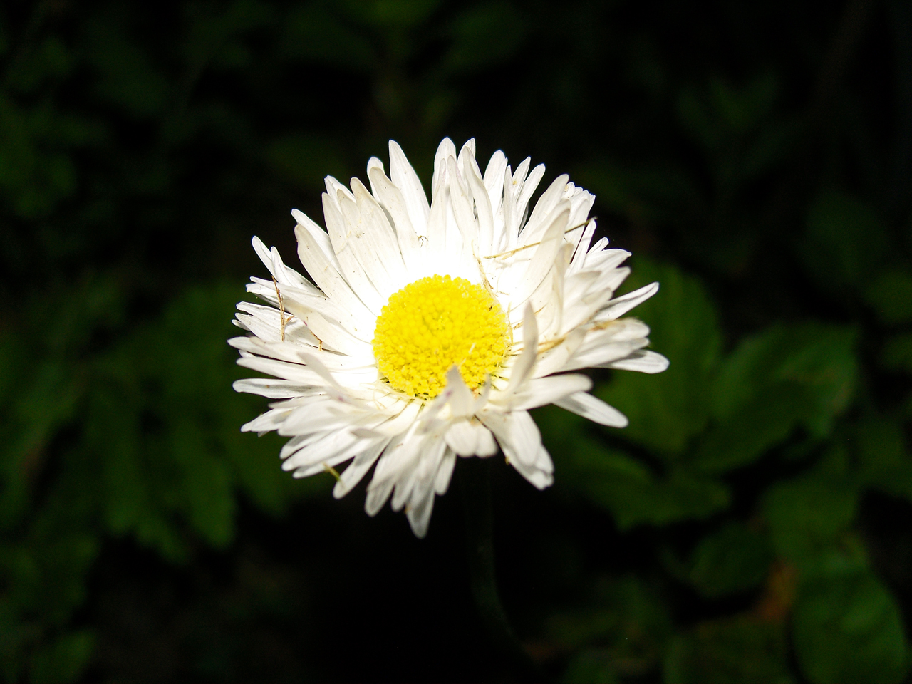 Matricaria